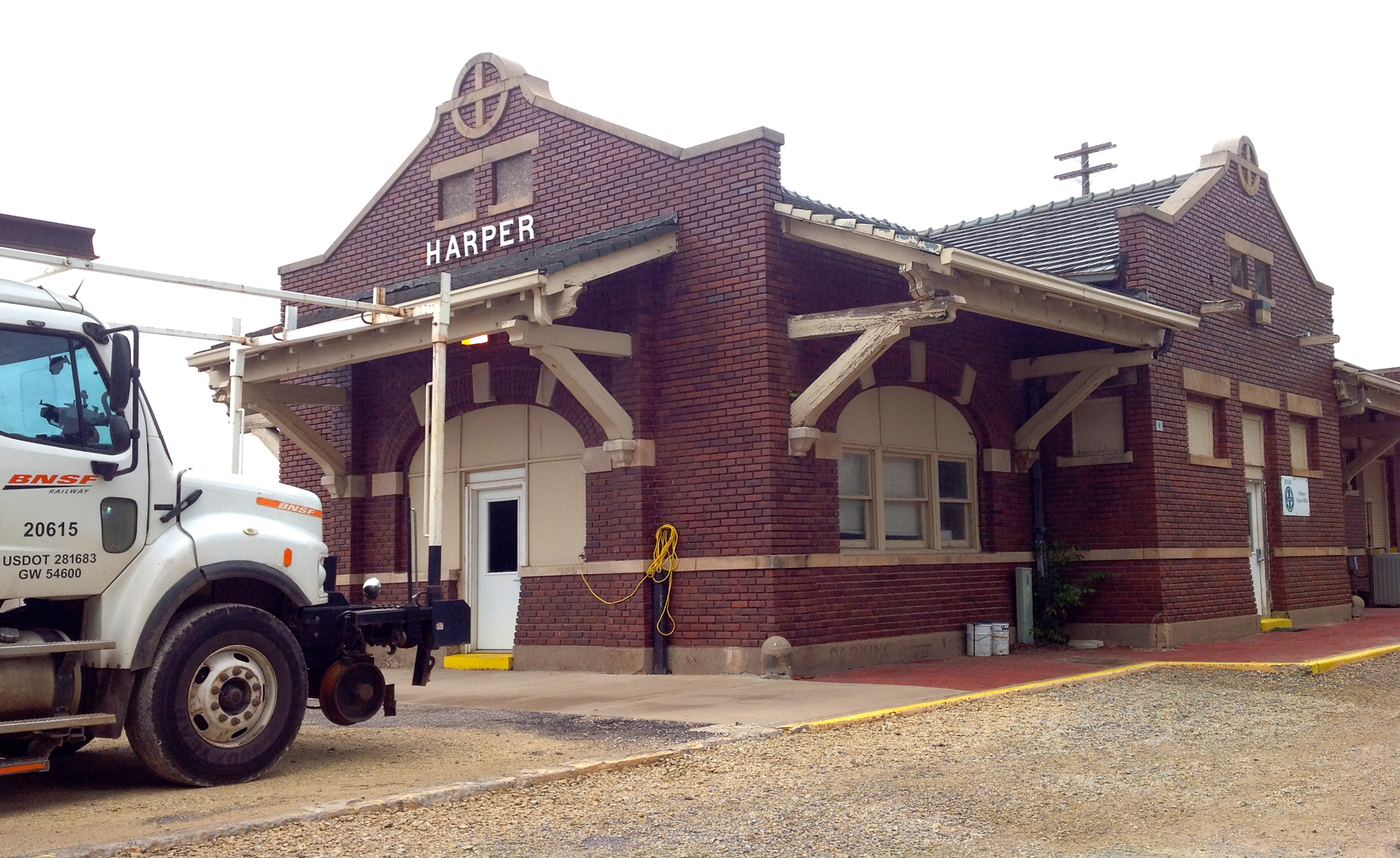 Harper Kansas Train Depot, Burlington Northern Santa Fe Railroad